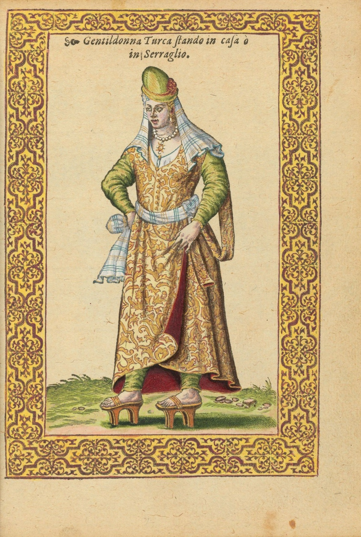 Illustration of "Gentildonna Turca" from Le navigationi et viaggi nella Turchia, 1577, by Nicolas de Nicolay (1517-1583). Typ 530.77.606, Houghton Library, Harvard University